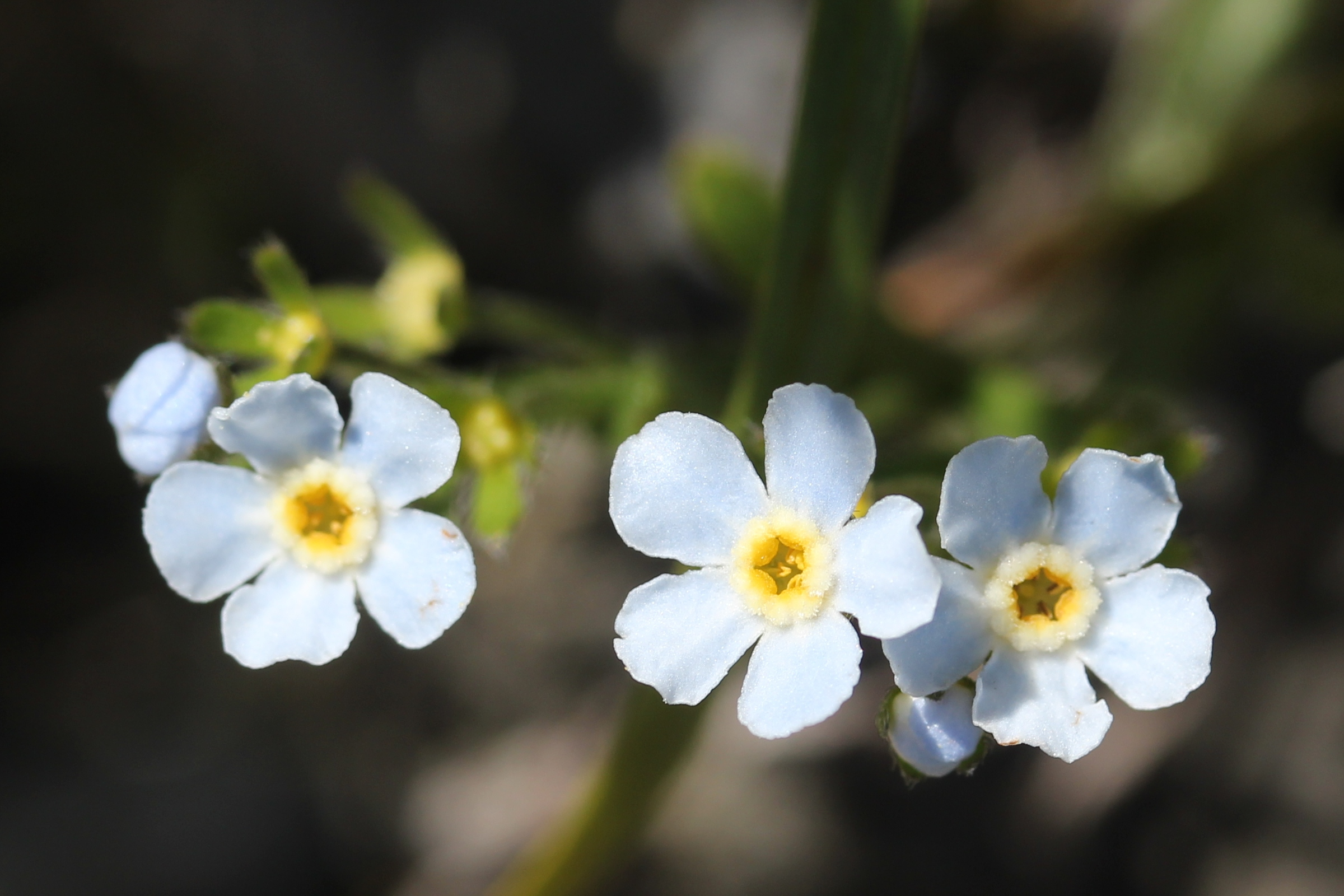 Eritrichium nipponicum in Mount Shiroumayari, Hakuba, Nagano prefecture, Japan.